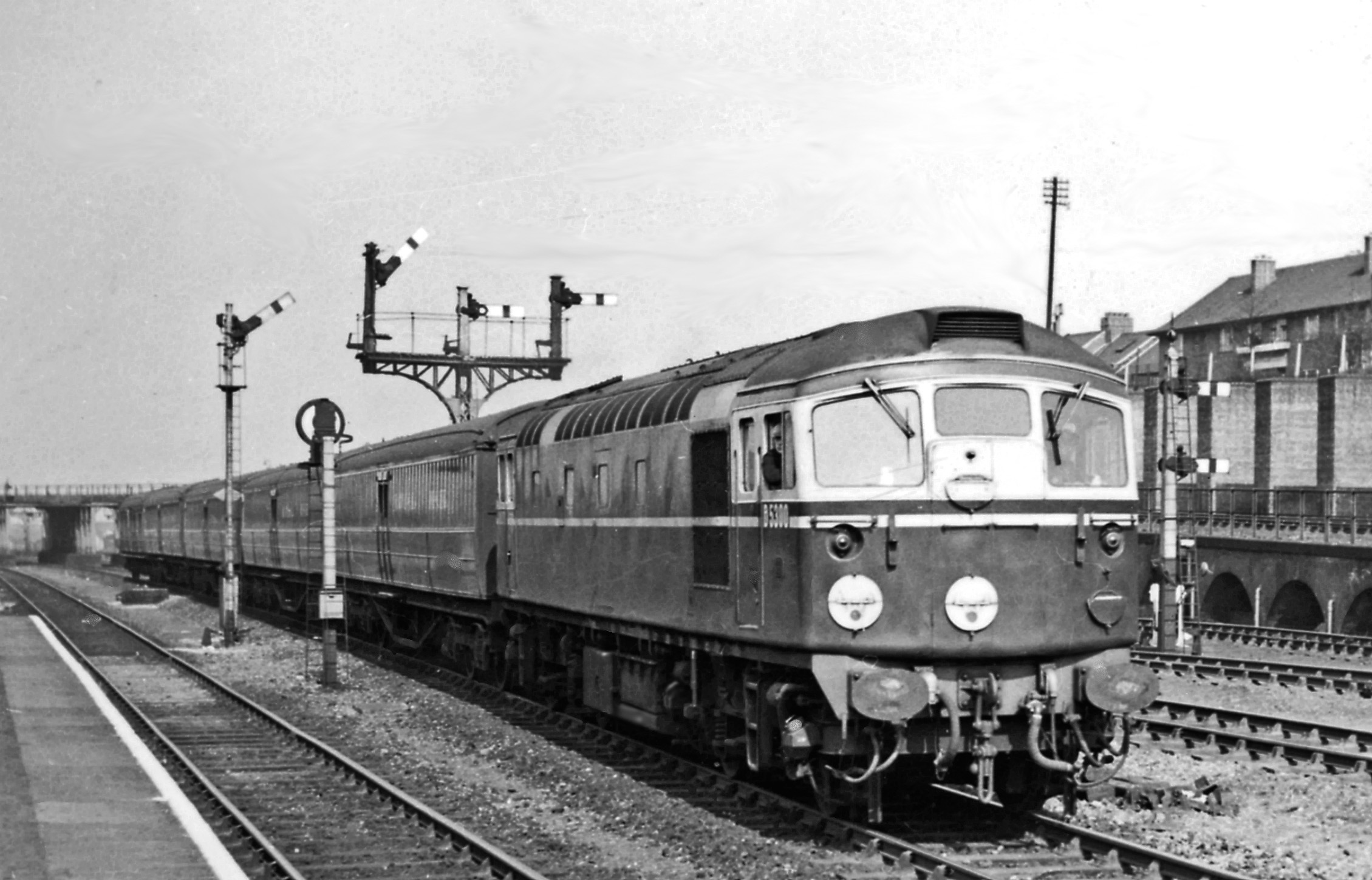 Birmingham Railway Carriage & Wagon Co. Diesel at Harringay West. A mixture of anticipation and dread accompanied the abrupt introdution of these unfamiliar main-line Diesels onto the empty stock workings into King's Cross. Here the first Birmingham RC&W/Sulzer 1,160 hp Type 2 Bo-Bo, No. D5300, is on an Up van train at Harringay - where hitherto steam locomotives had and for another four years would still operate. This Type 2 1,160 hp Bo-Bo (later class 26) began work here, but the class were soon sent up to the Scottish Region and worked there for 20 years or so, but were not a great success.